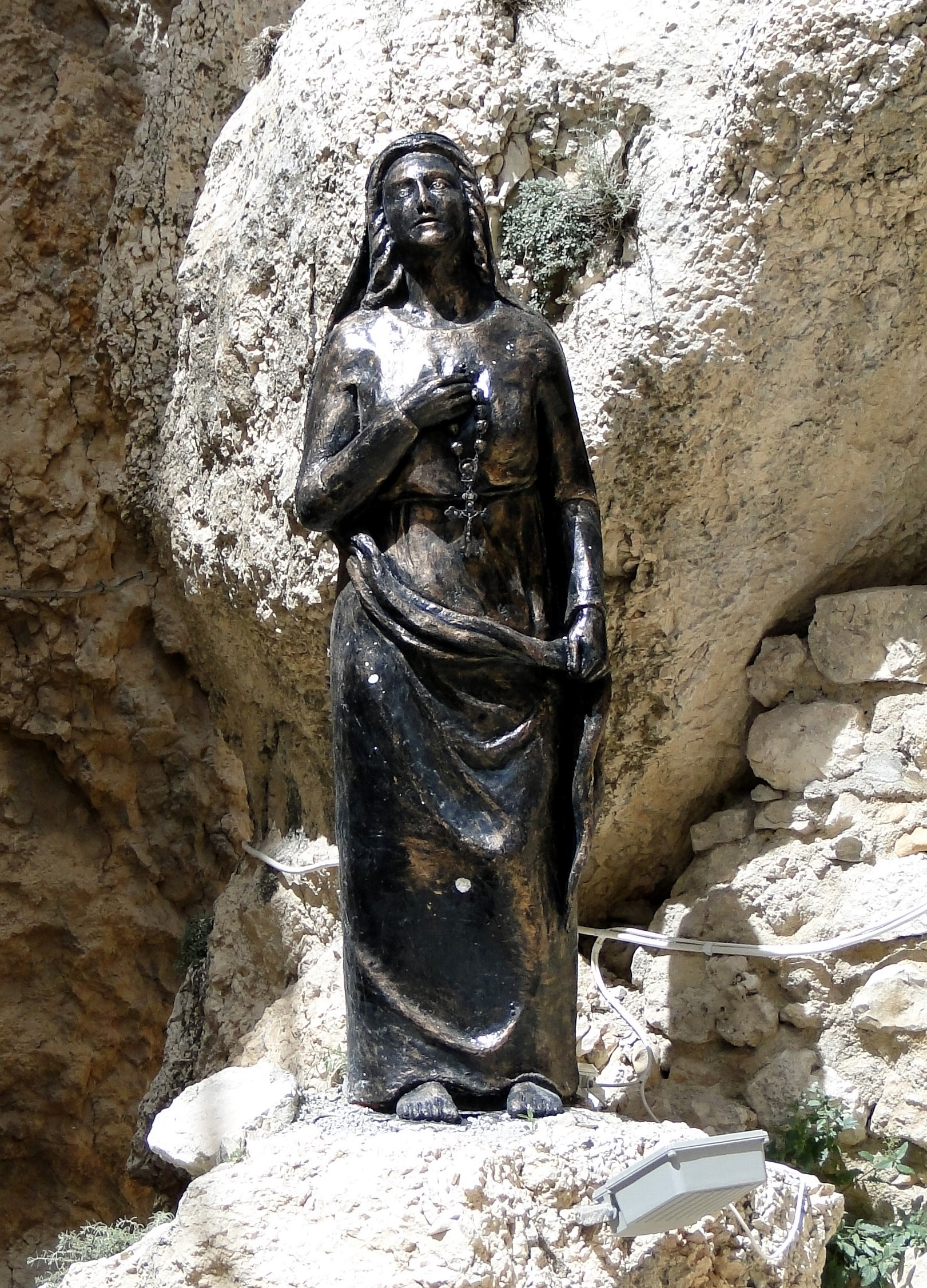 Statue of Saint Thecla in the gorge of Saint Thecla, Ma'loula, Syria